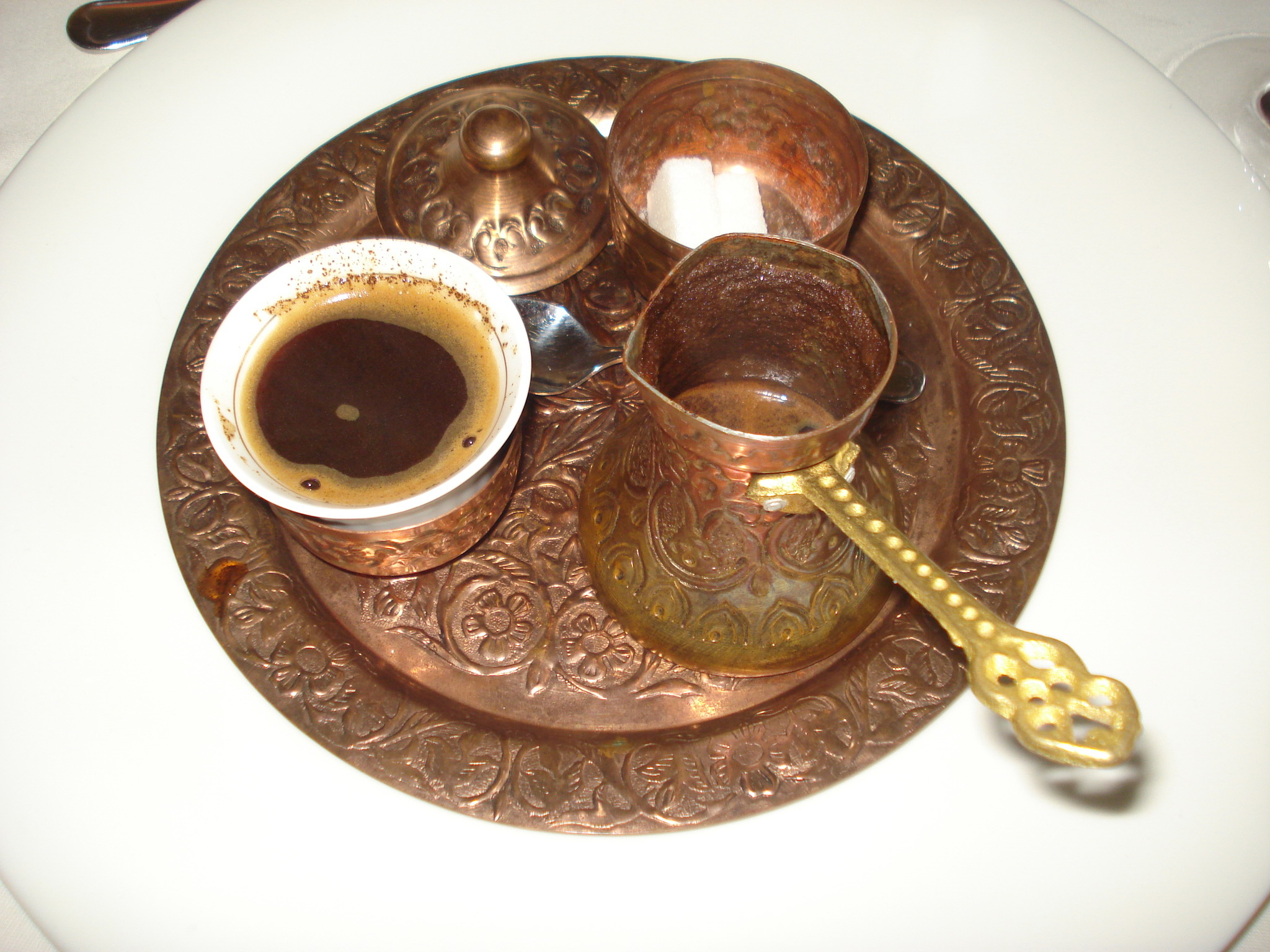 Turkish coffee set (Bosnian version) containing a cup/fildžan of coffee, a coffee pot/cezve and a sugar bowl - served in Medjimurje County, Croatia